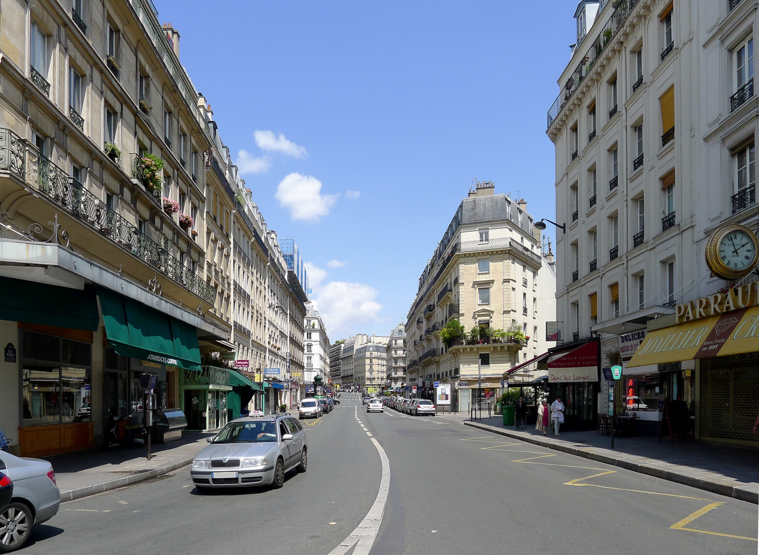 Monge street - Paris